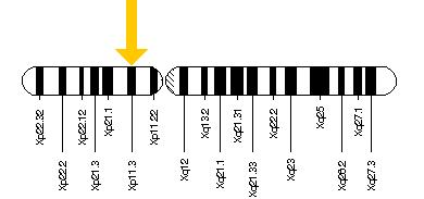 MAO-A gene. Cytogenetic Location: Xp11.3 Molecular Location on the X chromosome: base pairs 43,654,906 to 43,746,823 The MAOA gene is located on the short (p) arm of the X chromosome at position 11.3. More precisely, the MAOA gene is located from base pair 43,654,906 to base pair 43,746,823 on the X chromosome. Obtained from U.S. National Library of Medicine at the link